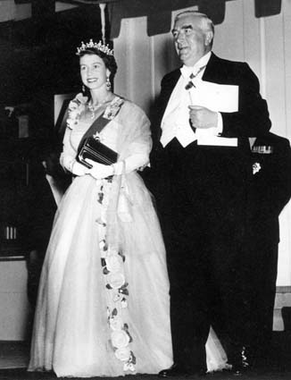 Photograph of Queen Elizabeth II with Prime Minister Robert Menzies at the state banquet in Canberra during her first visit to Australia in 1954. This copy is from a red photograph album assembled by Dame Annabelle Rankin in the National Archives of Australia (accession number M2127).